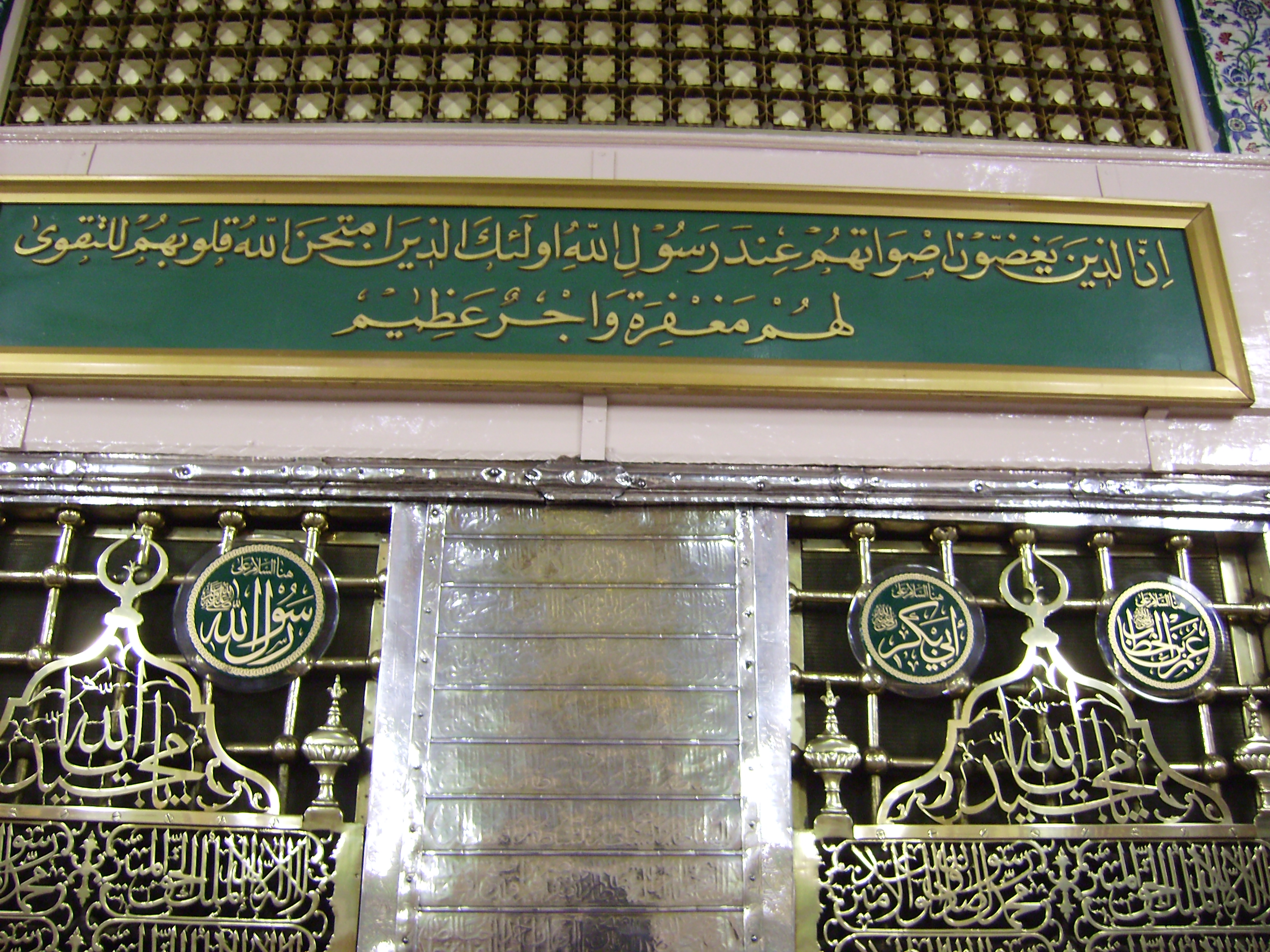 Al-Masjed Al-Nabawi, Hujrah